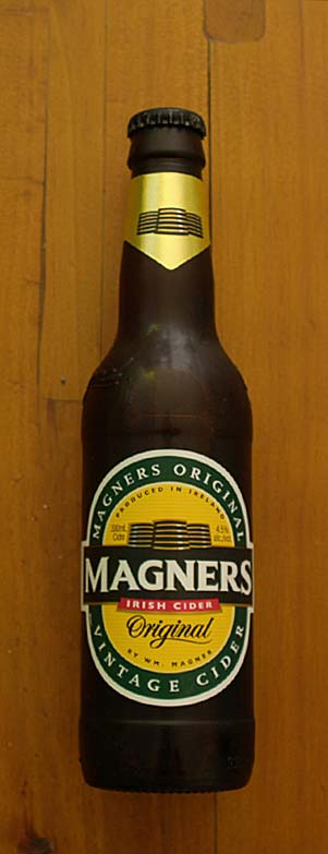 Magners Original Irish Vintage Cider